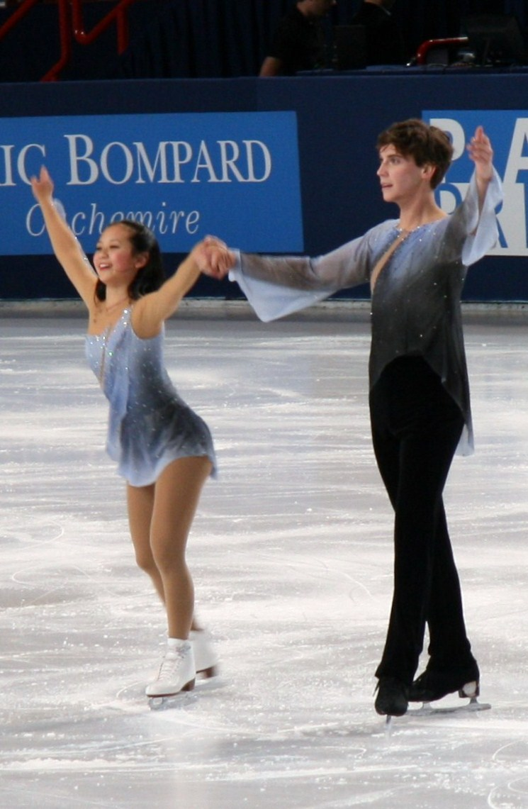 Felicia Zhang and Taylor Toth at the 2010 Trophée Eric Bompard, SP